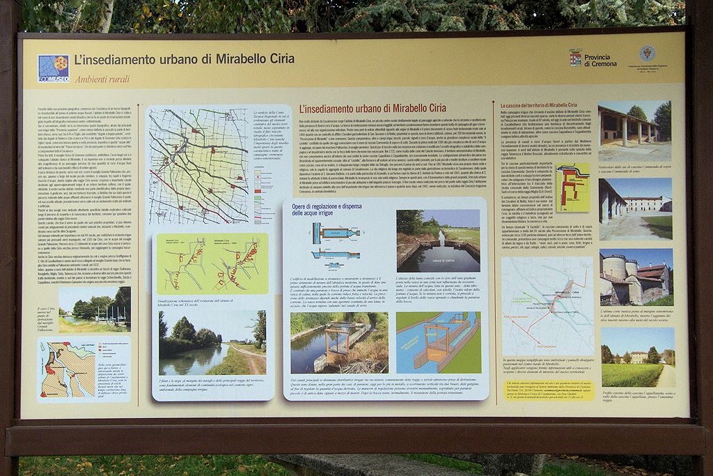 Typical sign of the initiative "The Territory as Ecomuseum" promoted by the Province of Cremona